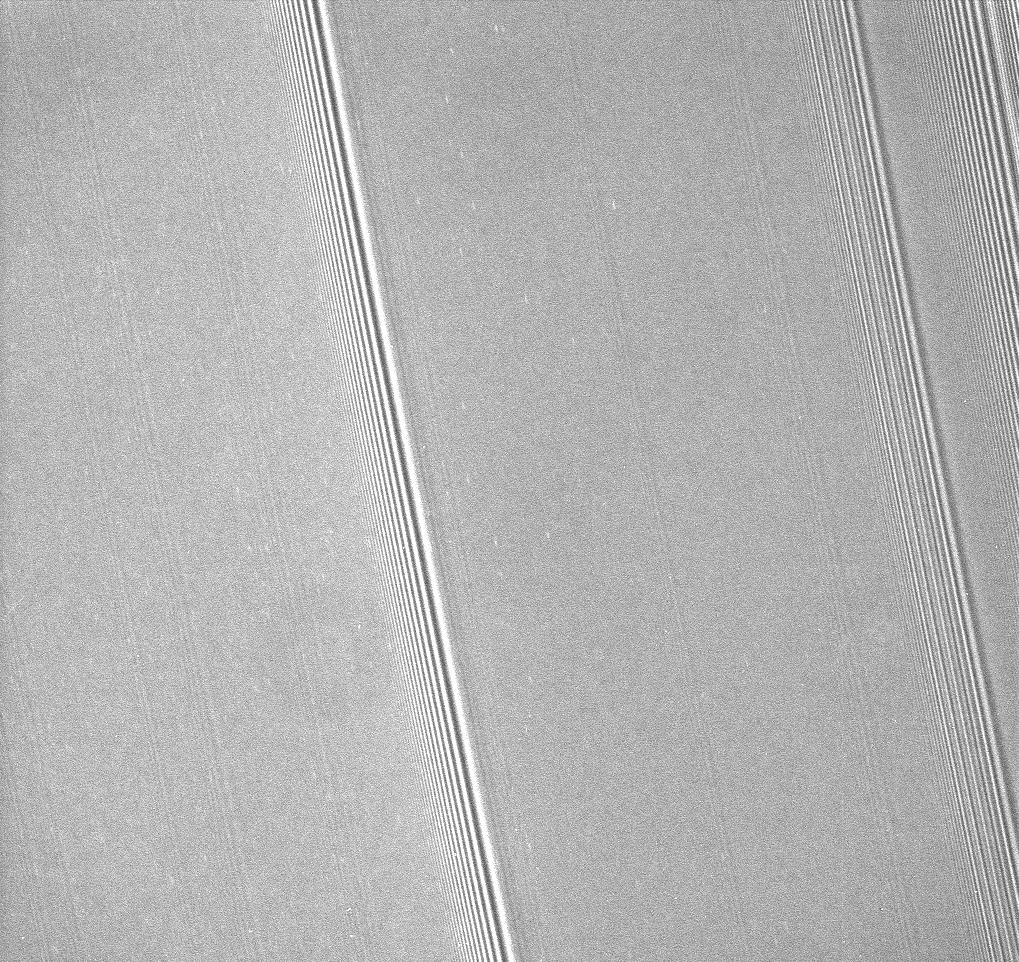 A close-up of Saturn's A ring reveals dozens of small, bright streaks aligned with the orbital direction of the rings. These objects are the propeller-shaped features first captured in Cassini images during the spacecraft's 2004 orbital insertion maneuver, as Cassini skimmed just above the ringplane. The propeller features were announced in 2006 (see PIA07792). Each propeller is the visible gravitational disturbance created around a small moonlet embedded in the ring. The moonlets are likely between 10 and 100 meters (30 to 300 feet) across. Cassini imaging scientists have previously found that propeller swarms like this occur primarily in three narrow bands in the middle part of the A ring. This view looks toward the sunlit side of the rings from about 35 degrees below the ringplane. The image was taken in visible light with the Cassini spacecraft narrow-angle camera on Sept. 25, 2008. The view was acquired at a distance of approximately 219,000 kilometers (136,000 miles) above the rings and at a Sun-ring-spacecraft, or phase, angle of 127 degrees. Image scale is 1 kilometer (0.6 mile) per pixel in the radial, or outward from Saturn direction and 2 kilometers (1 mile) in the longitudinal, or around Saturn, direction.